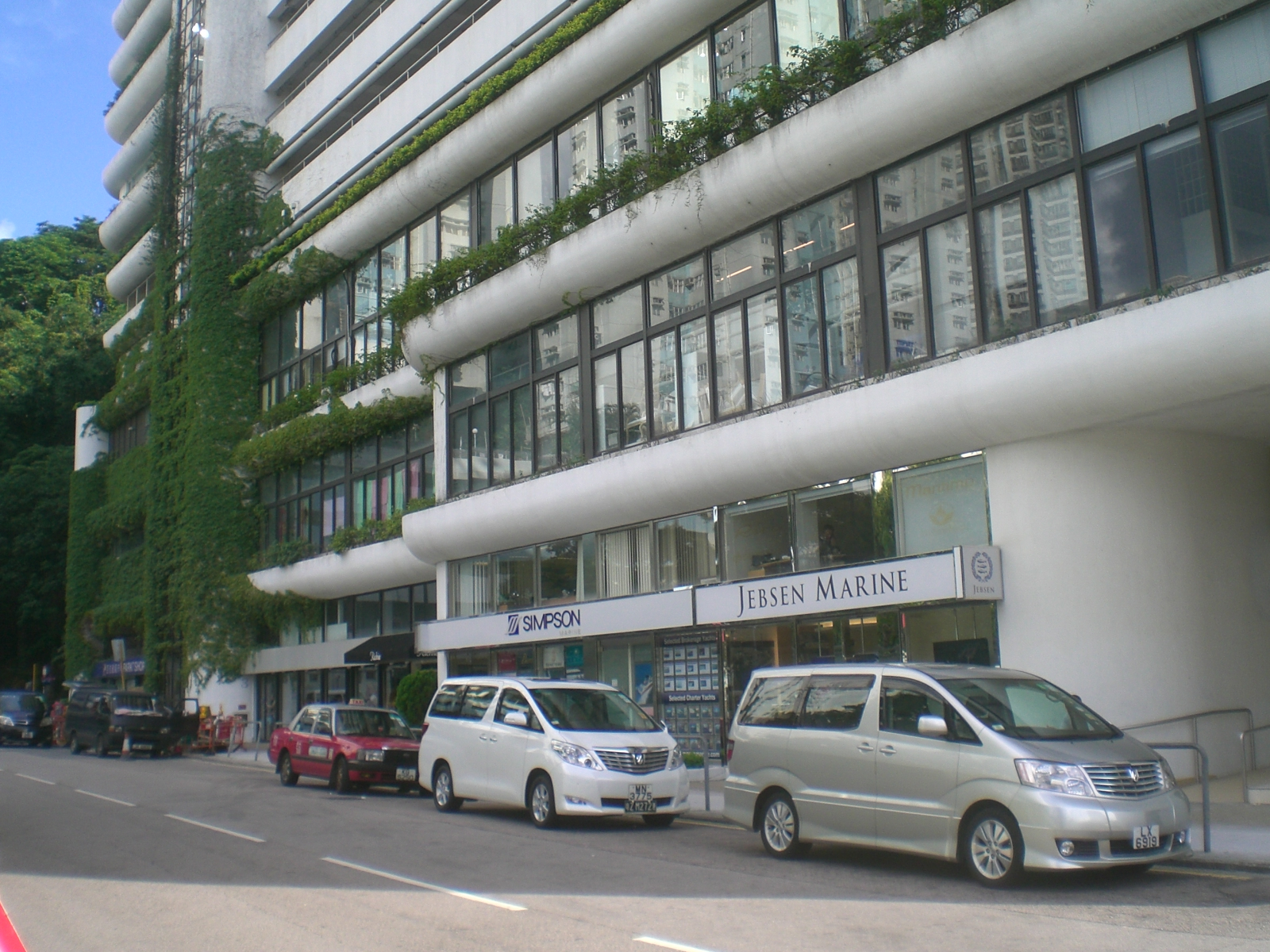 深灣道 深灣遊艇俱樂部